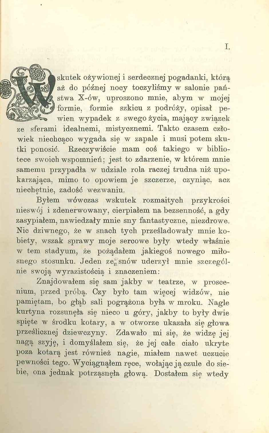 a first page of the first edition of Sny Marii Dunin by Irzykowski